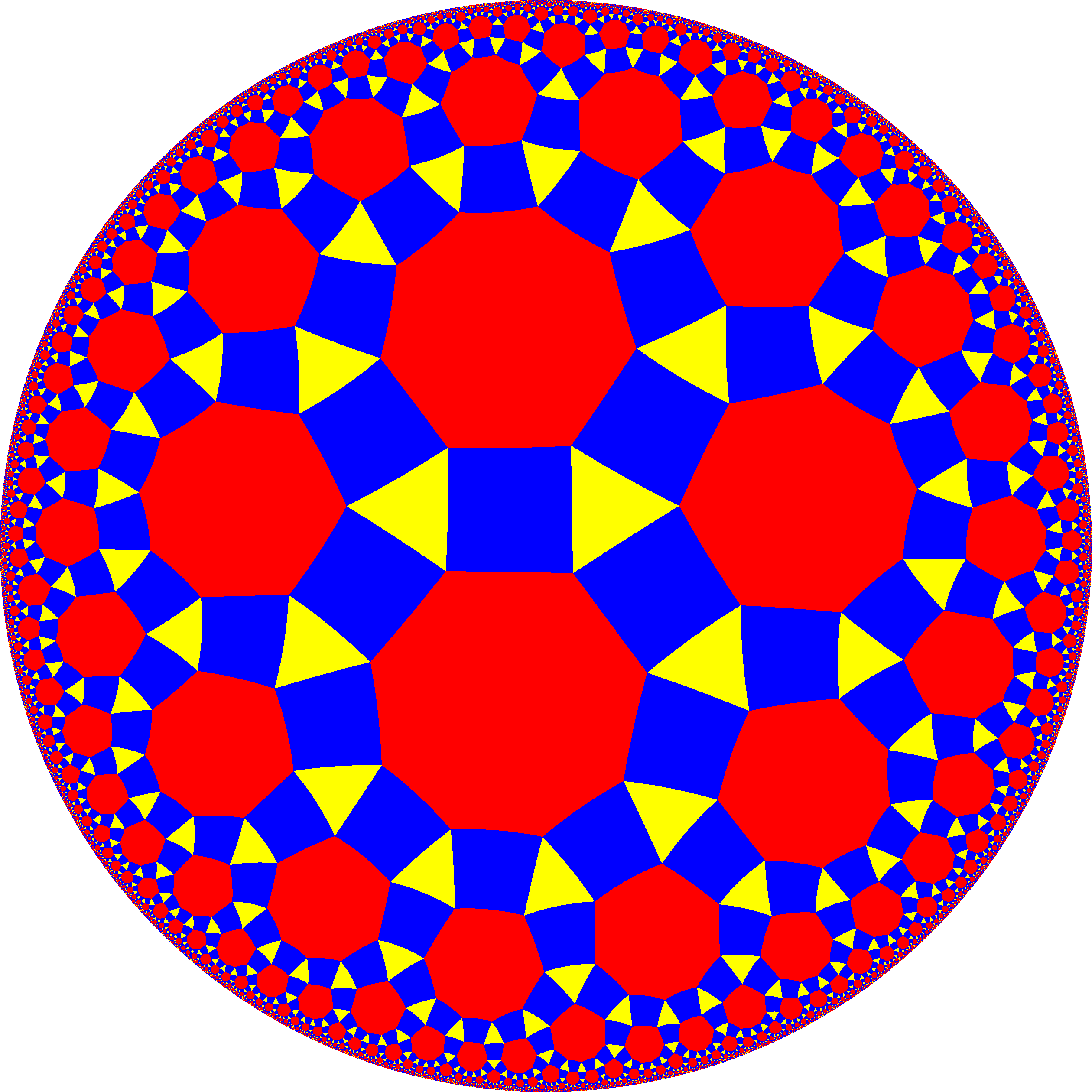 Uniform tiling of hyperbolic plane, x3o8x. Generated by Python code at User:Tamfang/programs.